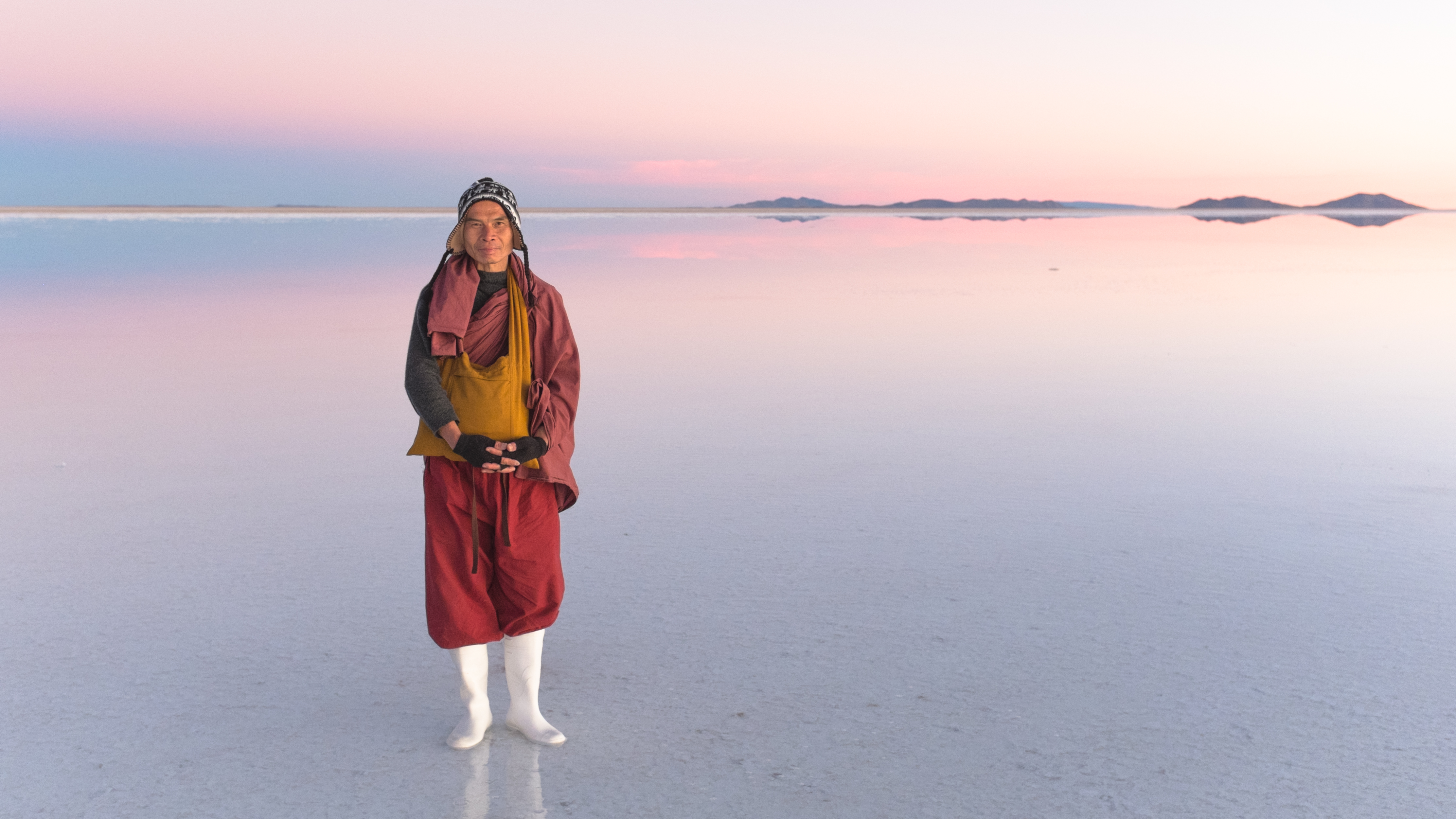 A Taiwanese Monk at the Salar of Uyuni during winter. Photo taken at sunset time. He was travelling for a few weeks in order to see some nice places and to meet some of his fellows scattered in Latin America. He was given a tablet computer to document his travels, which he seemed to have done pretty well.